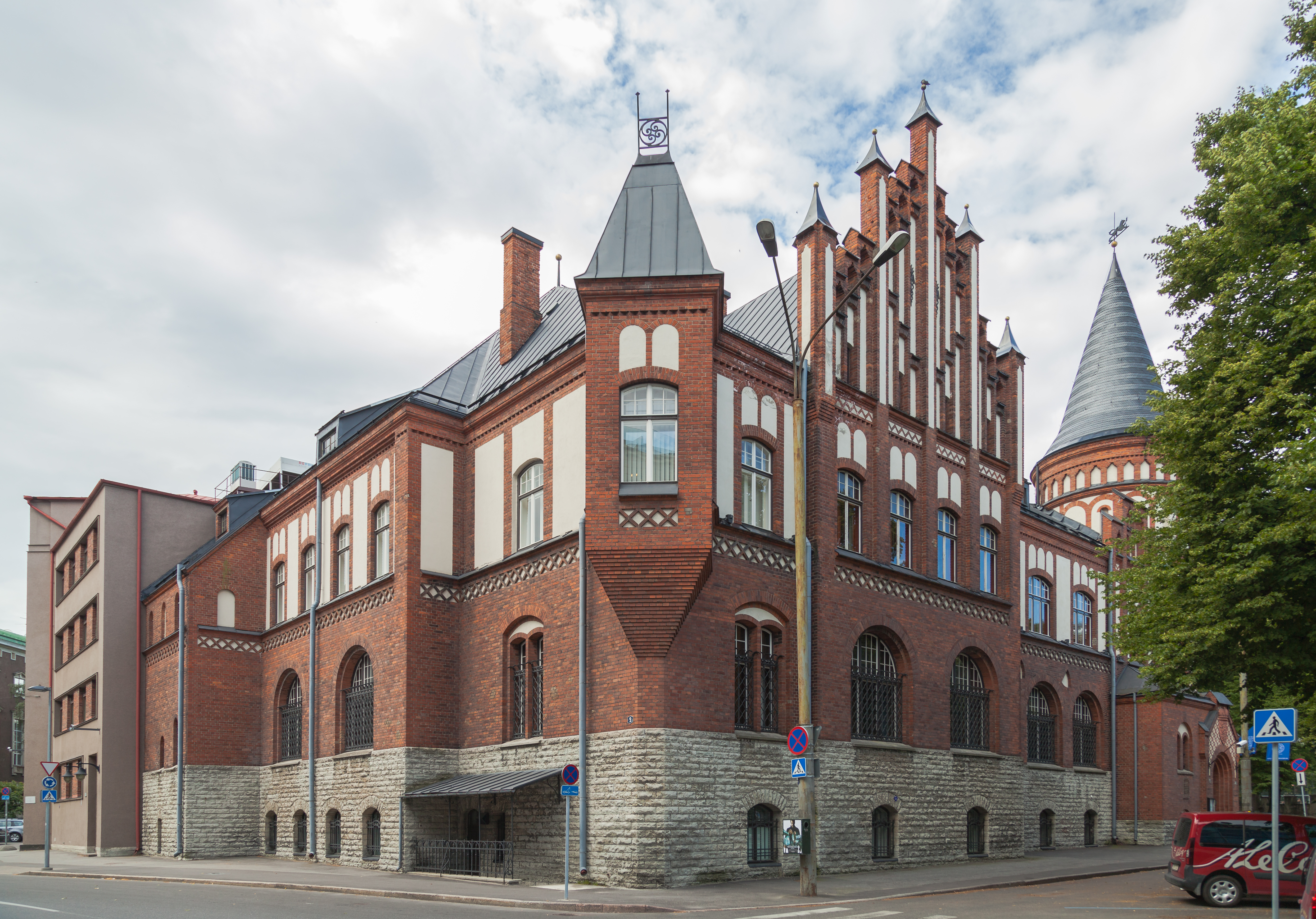 Museum of the Bank of Estonia, Tallinn, Estonia